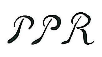 autograph of the painter Peter Paul Rubens